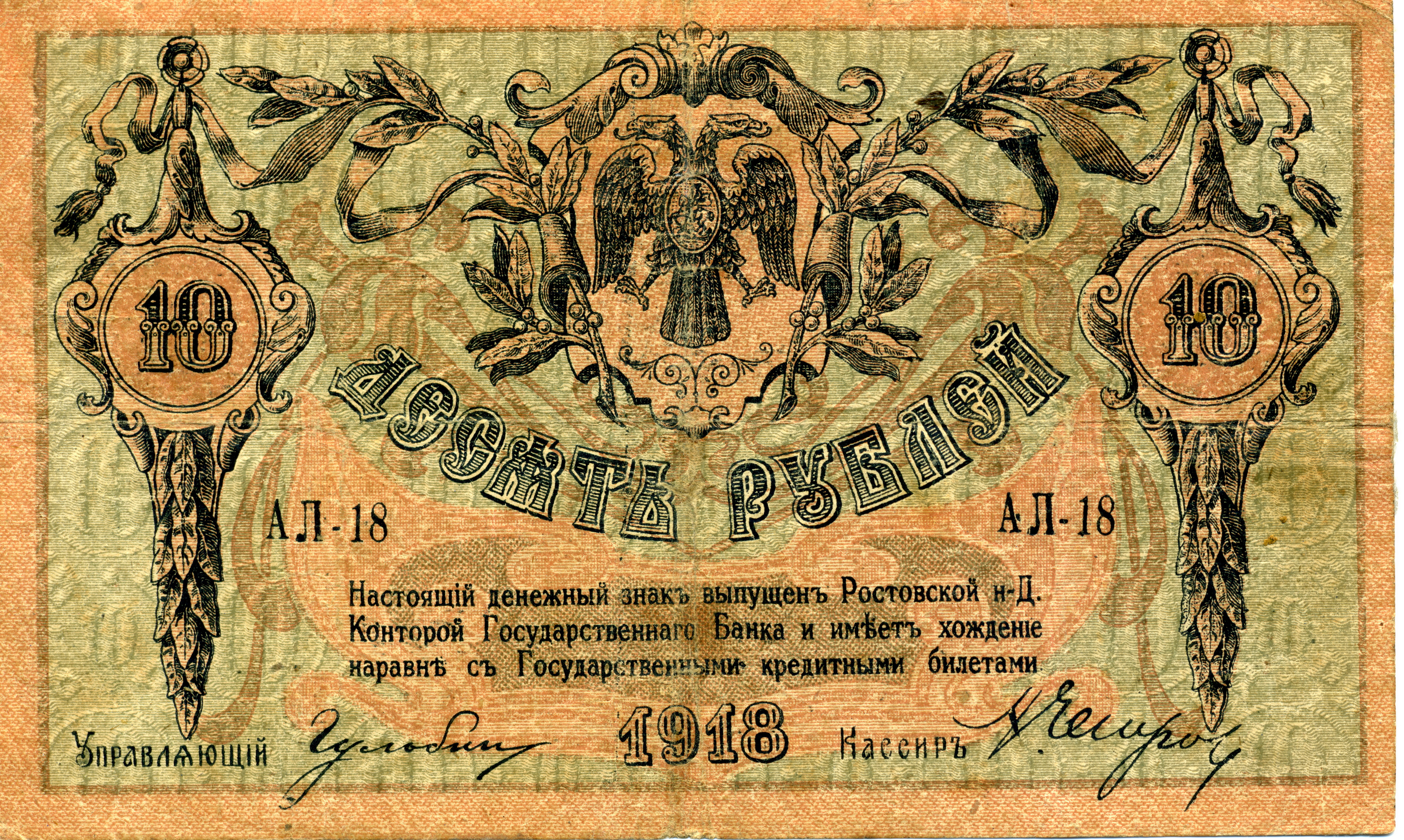 Russian Don banknote 10 rubles. 1918 year. Back